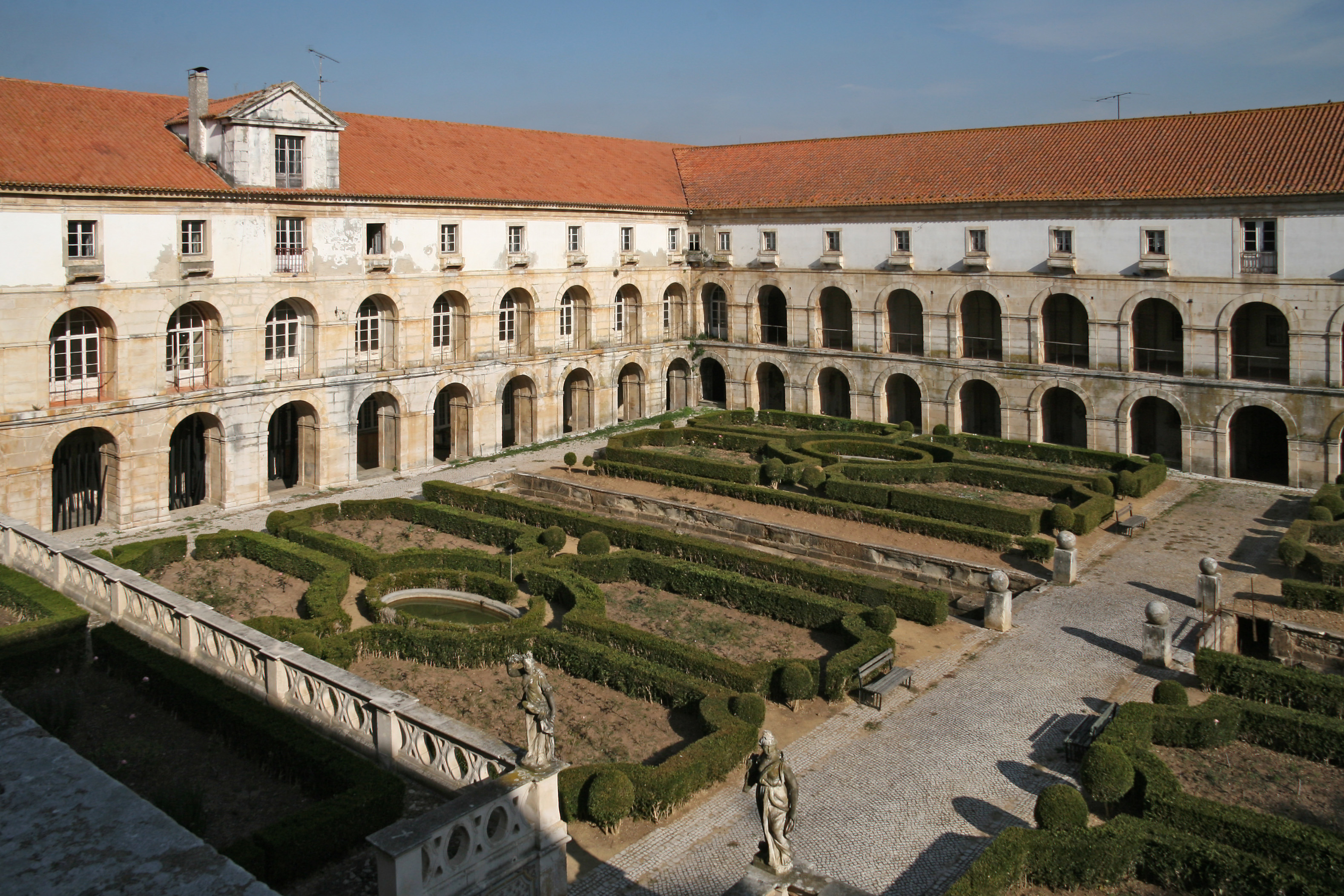 Alcobaça Monastery, Portugal